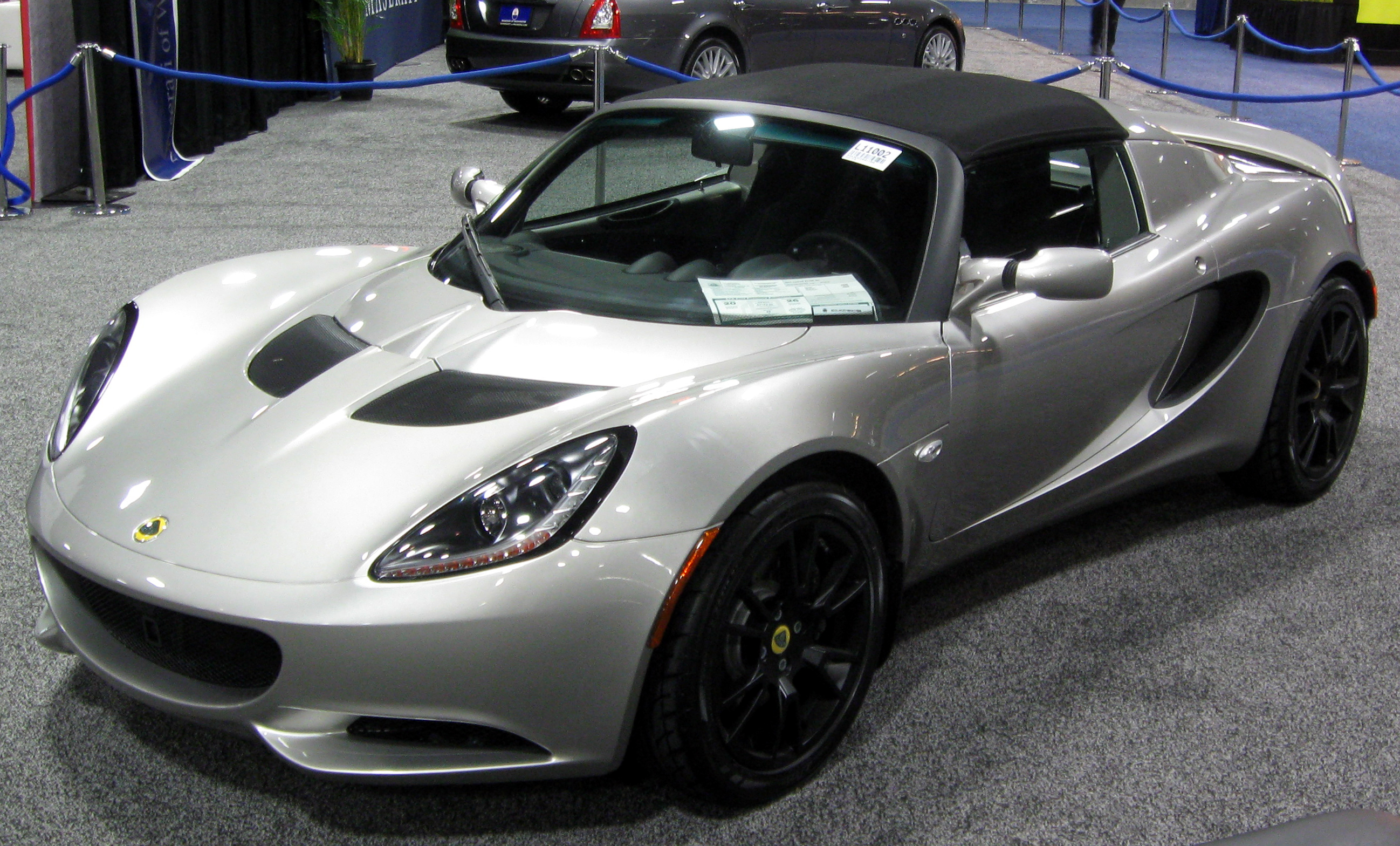 2011 Lotus Elise SC photographed in Washington, D.C., USA.